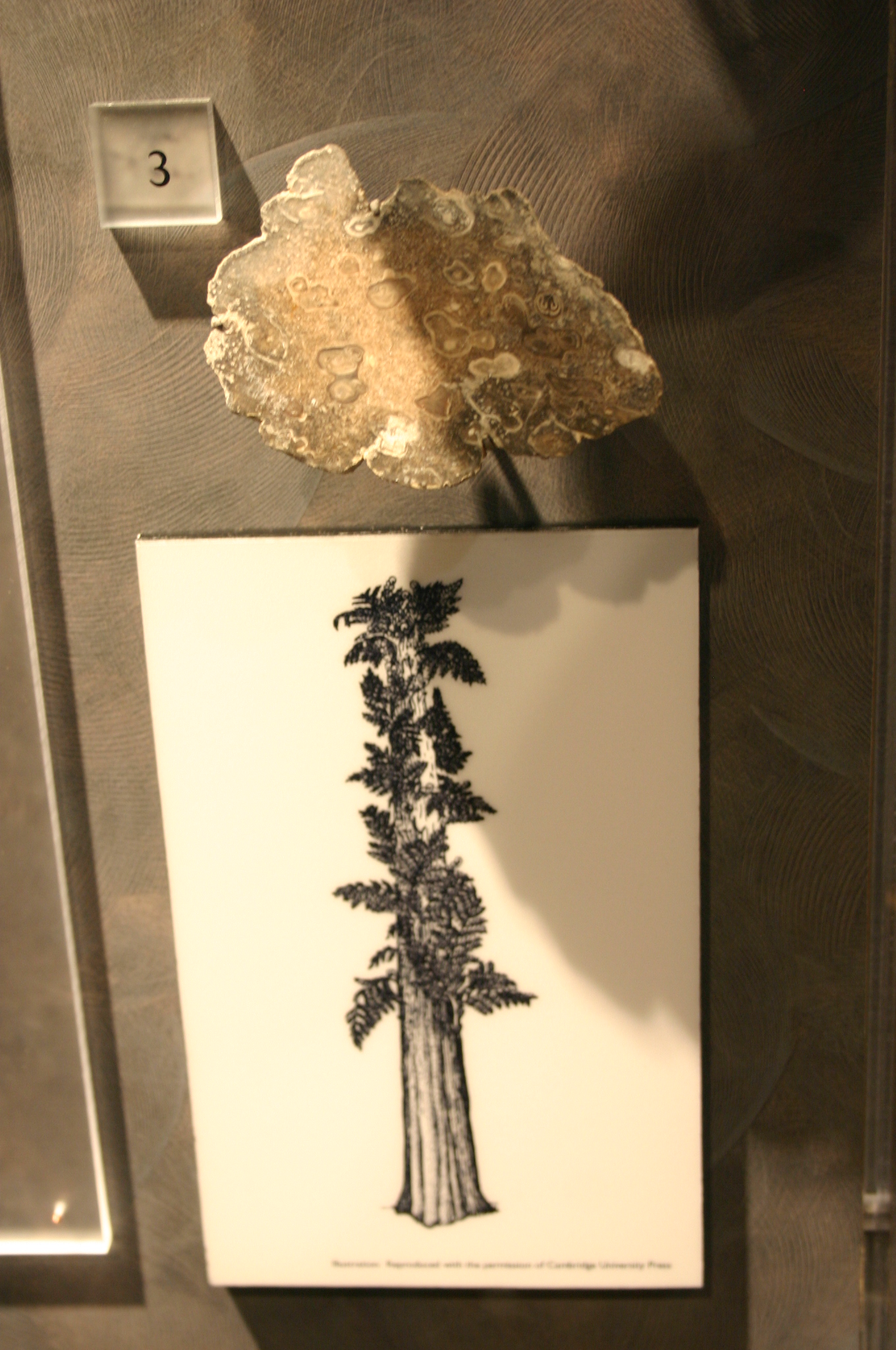 Original description: Visit my blog at The image depicts an image and slab of Tempskya on display.